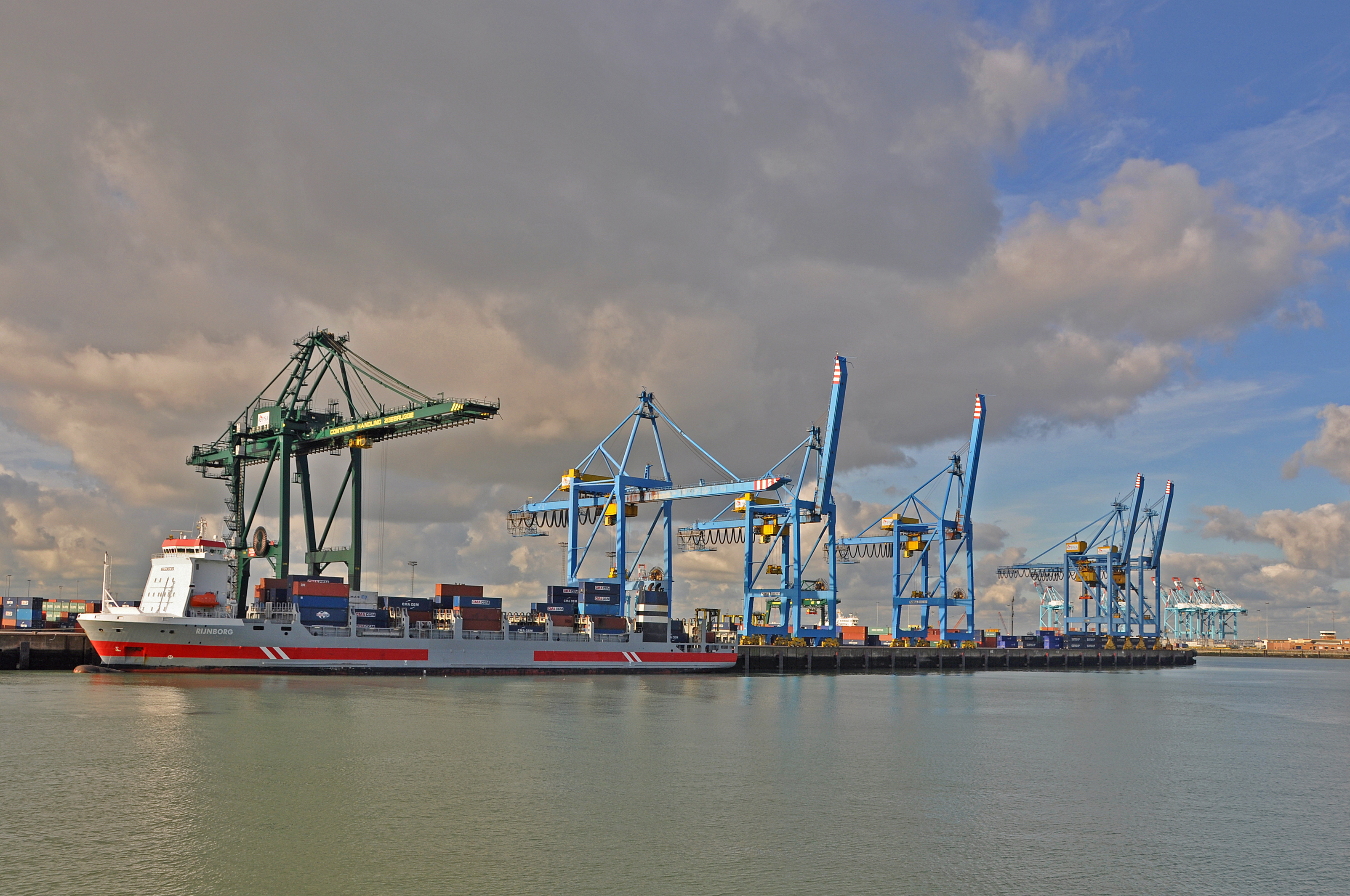 Zeebrugge (Belgium): Container cranes